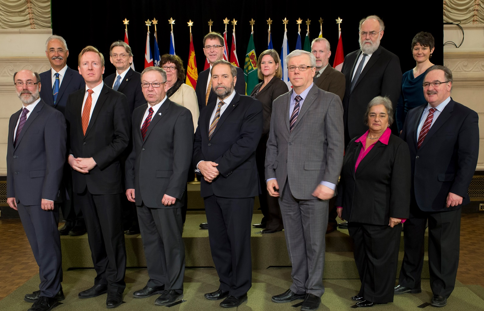 Leaders of the New Democratic Party of Canada at both the federal and provincial level. From left to right, top: Dennis Bevington (MP for Western Arctic), David Christopherson (Federal NDP deputy leader), Libby Davies (Federal NDP deputy leader), Adrian Dix (British Columbia NDP leader), Andrea Horwath (Ontario NDP leader), Mike Redmond (Prince Edward Island NDP leader), John Nilson (Interim Saskatchewan NDP leader), and Megan Leslie (Federal NDP deputy leader). Bottom: Robert Aubin (MP for Trois-Rivières), Dominic Cardy (New Brunswick NDP leader), Darrell Dexter (Nova Scotia Premier and NDP leader), Thomas Mulcair (Federal NDP leader), Greg Selinger (Manitoba Premier and NDP leader), Lorraine Michael (Newfoundland and Labrador NDP leader), and Brian Mason (Alberta NDP leader).